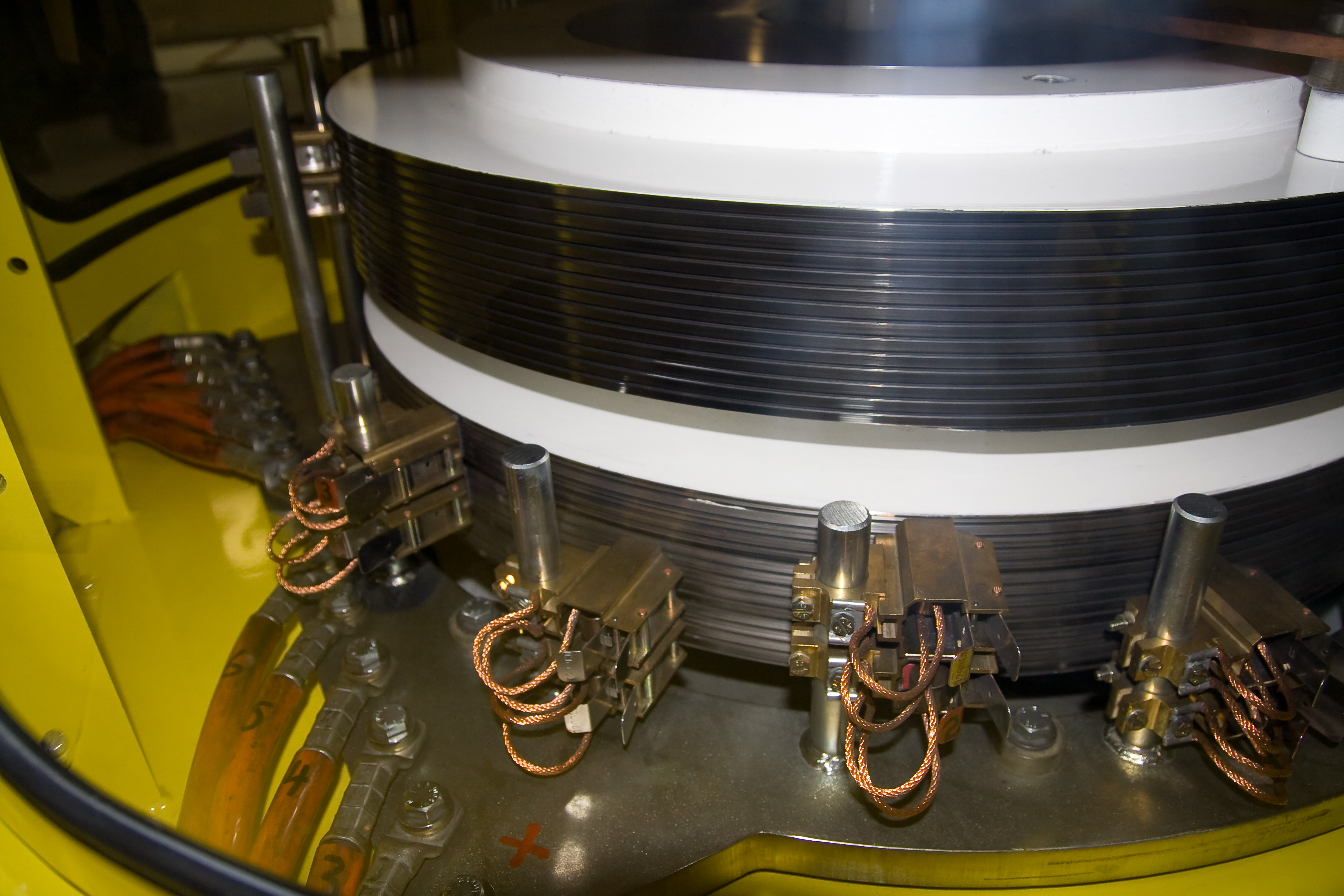 Direct current power supply of the rotor of a synchronous generator at Amsteg power plant